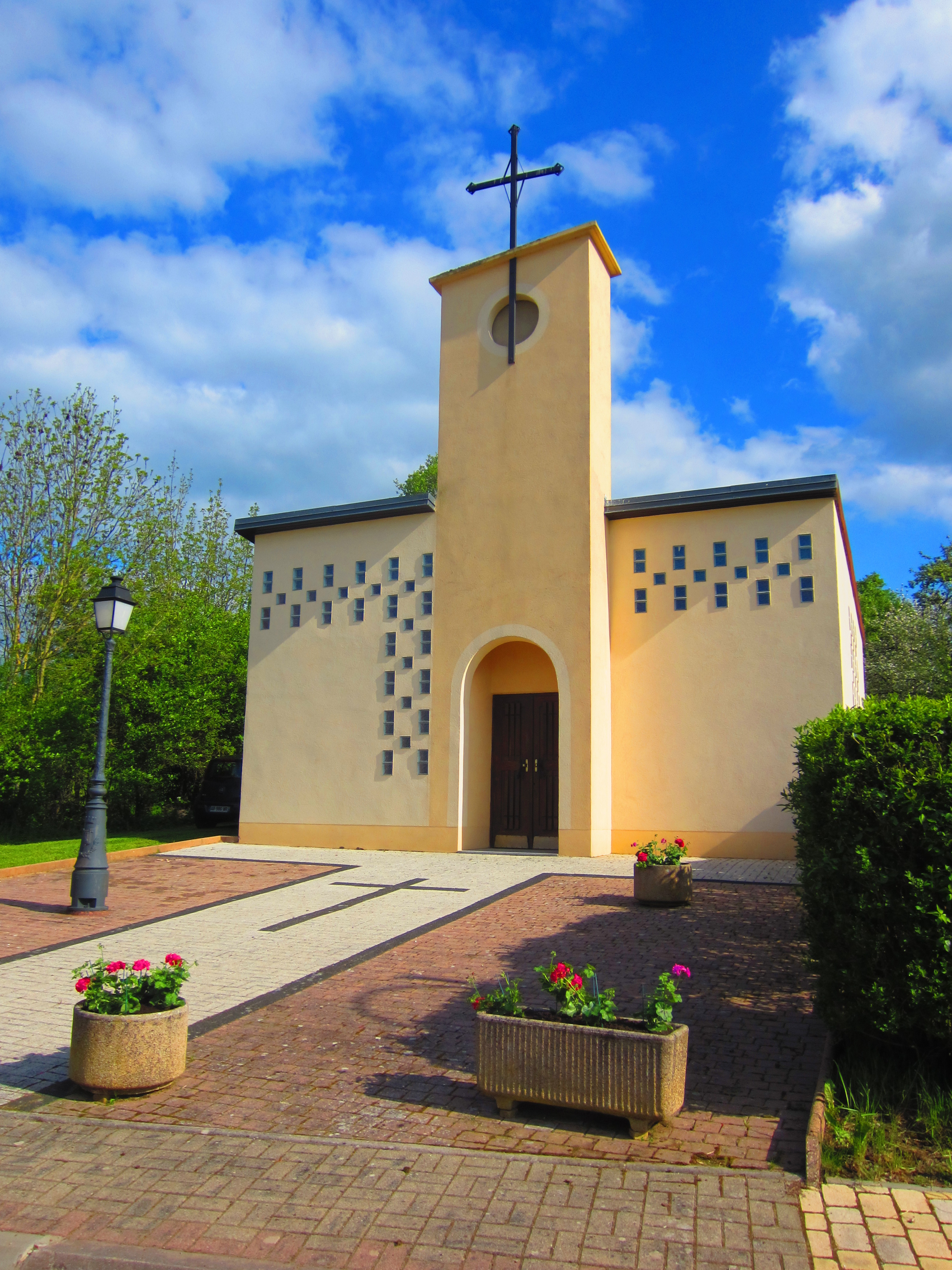 Rodlach chapel